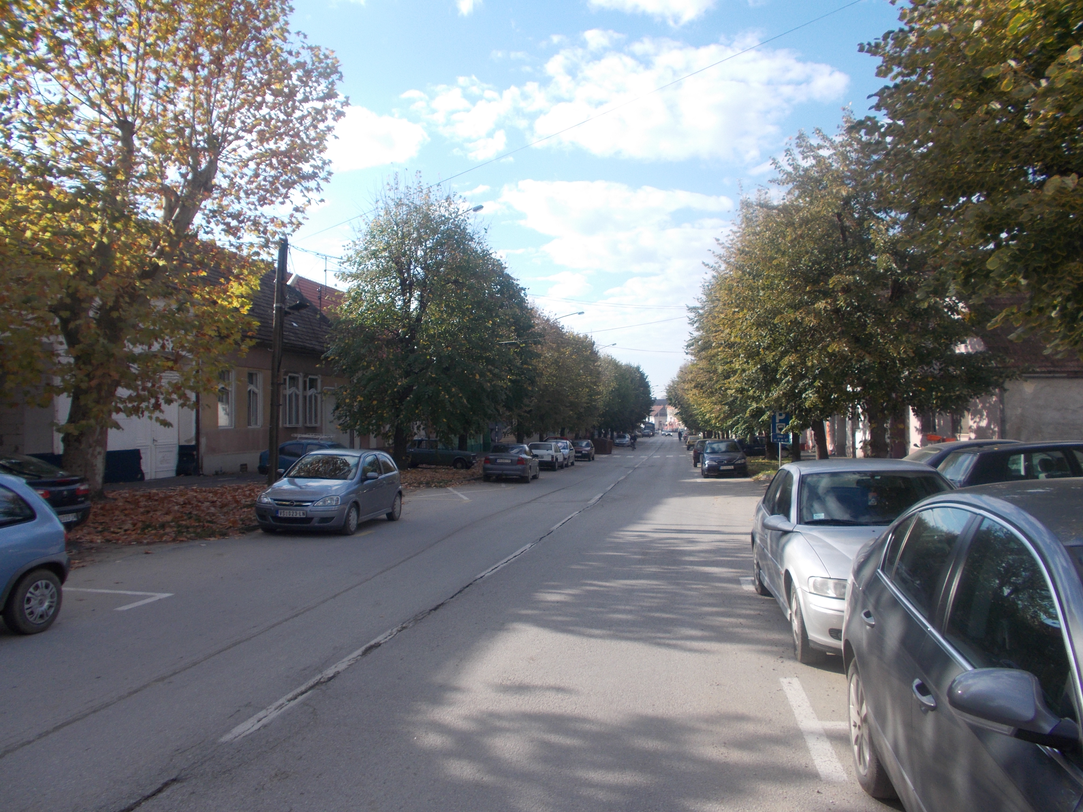 Street in Bela Crkva